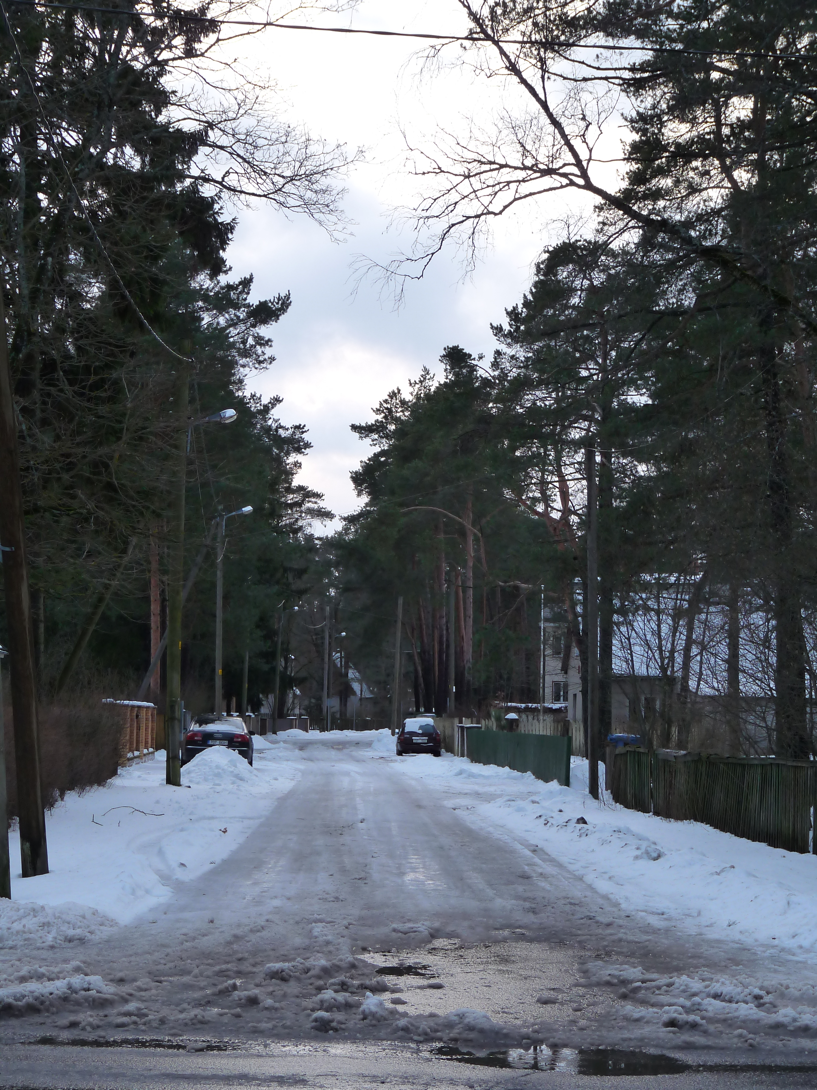 Aate street in Tallinn, Estonia